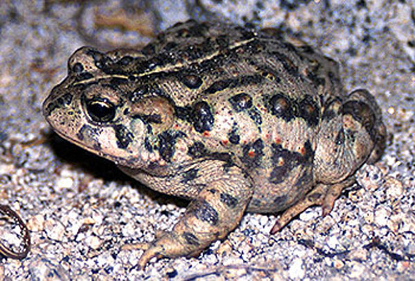 Bufo boreas subsp. halophilus